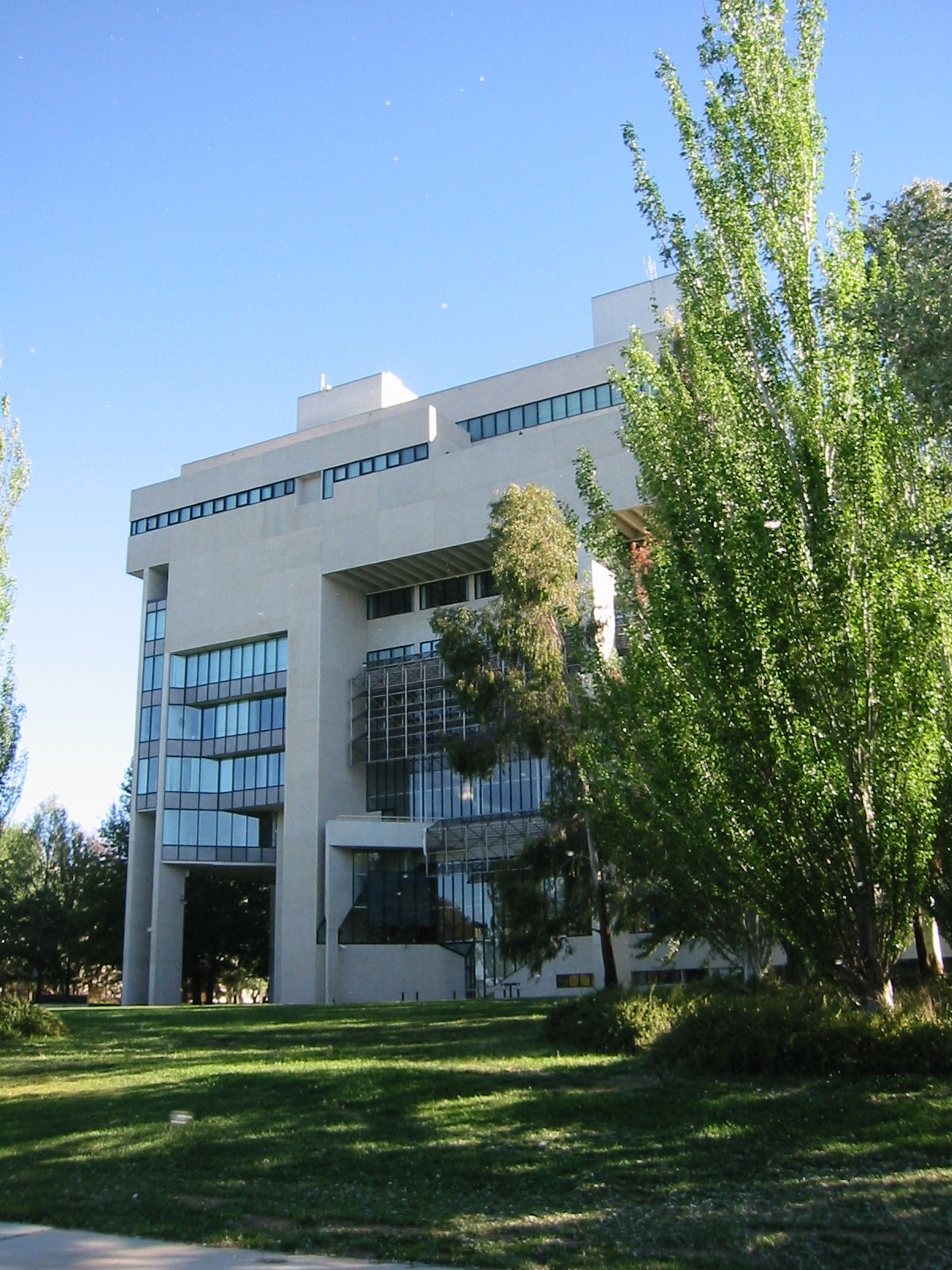 High Court of Australia photo taken by John Conway and released under the GFDL